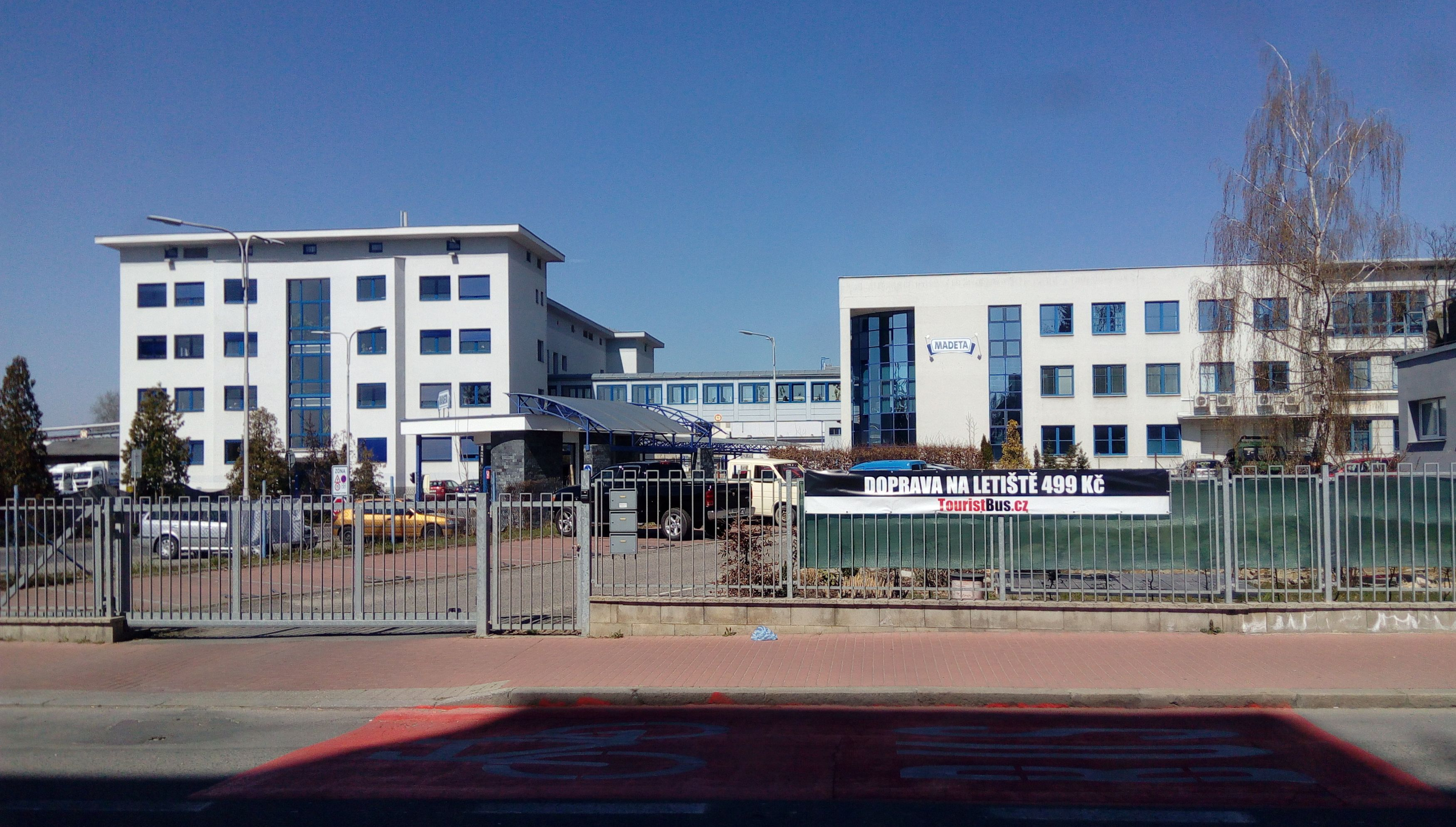 Madeta, a diary in the city of České Budějovice, South Bohemian Region, Czechia